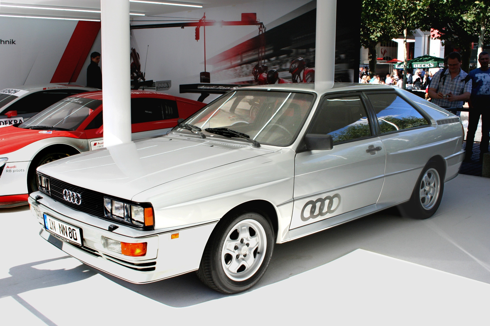 Silver Audi Quattro at IAA 2011. View: front left